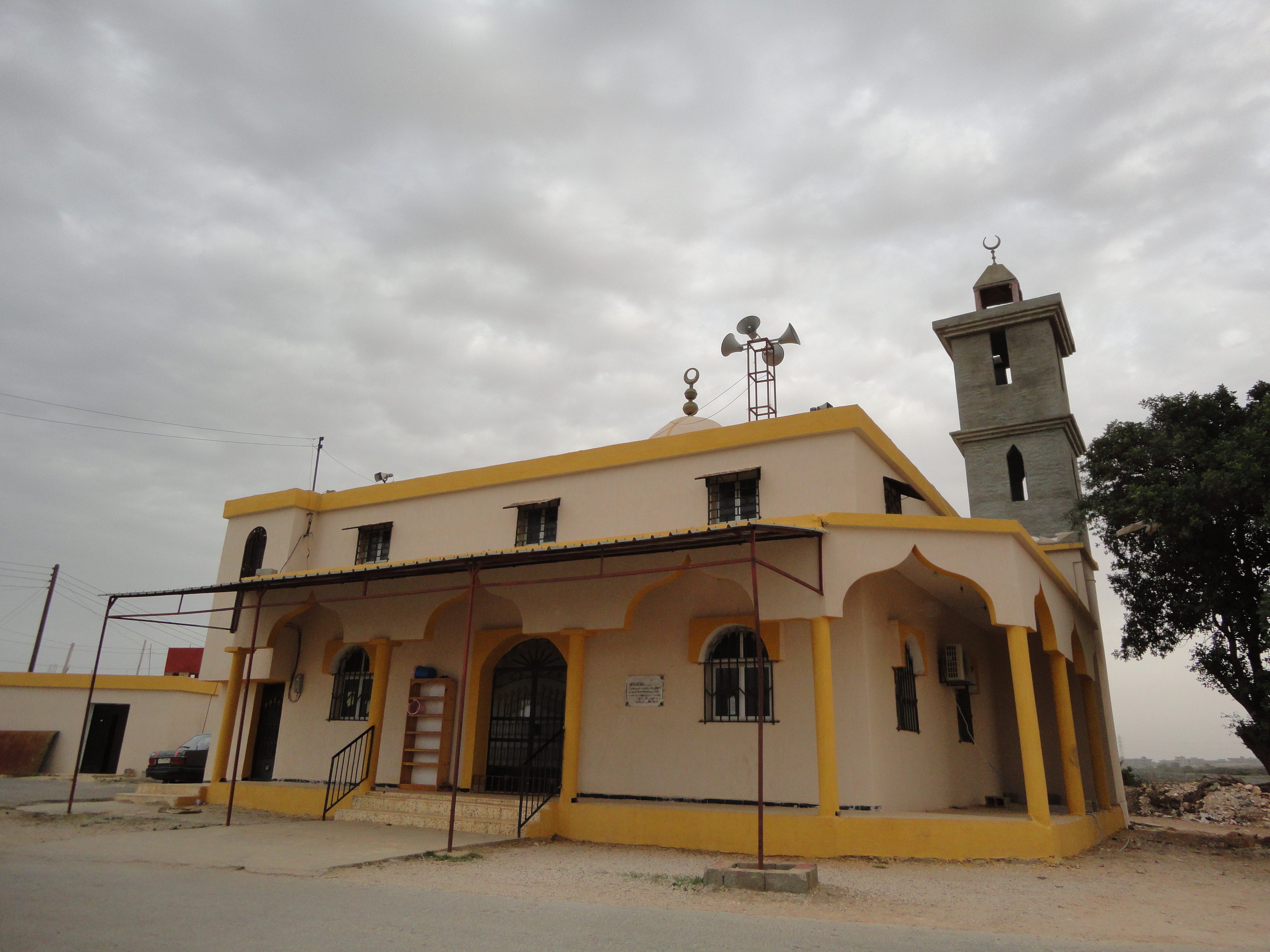 Rad al-Turab Mosque - Rad al-Turab region - Bayda, Libya .